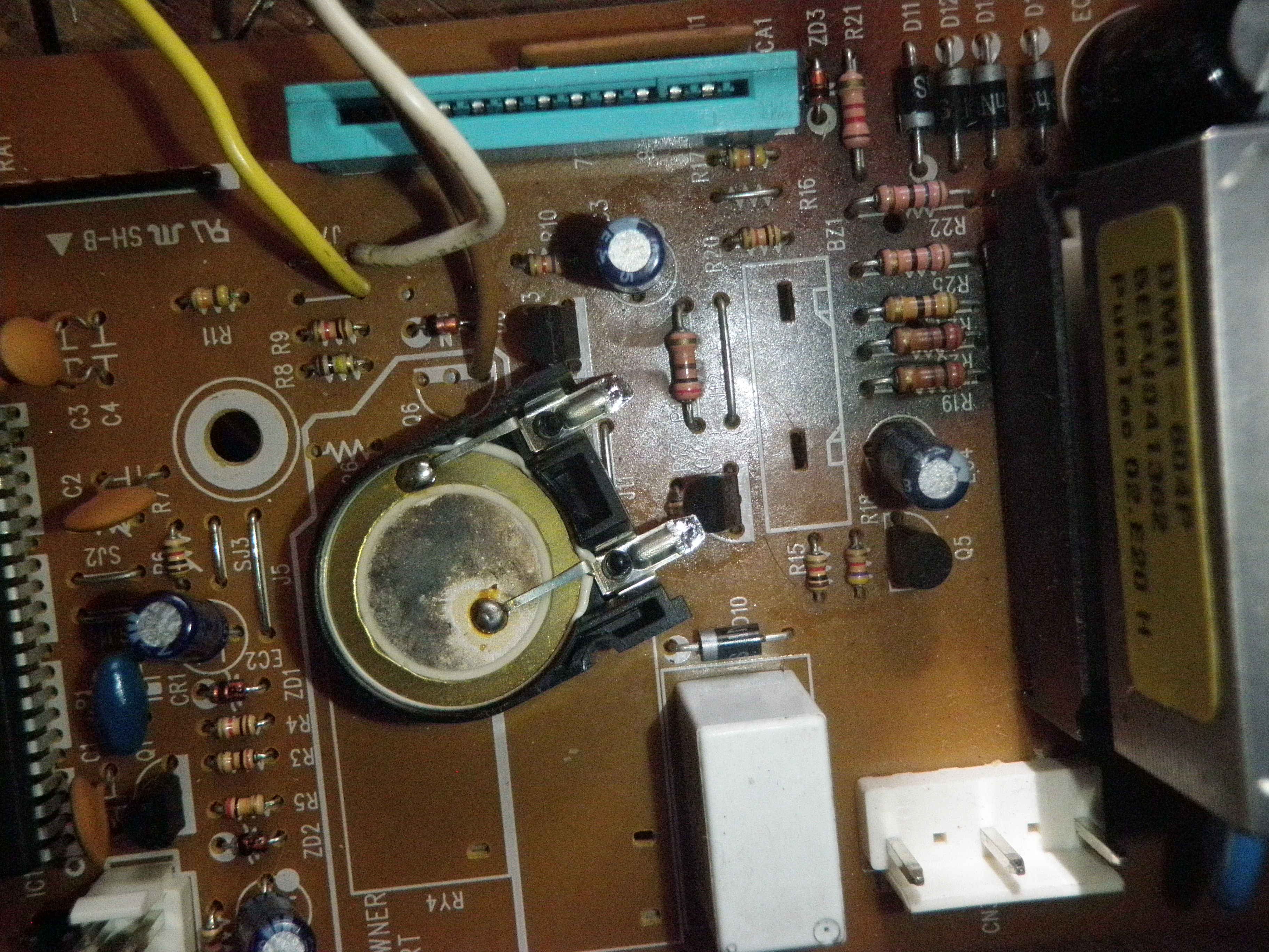 a piezoelectric crystal transducer, shown with the microwave oven control PCB from which it was pulled